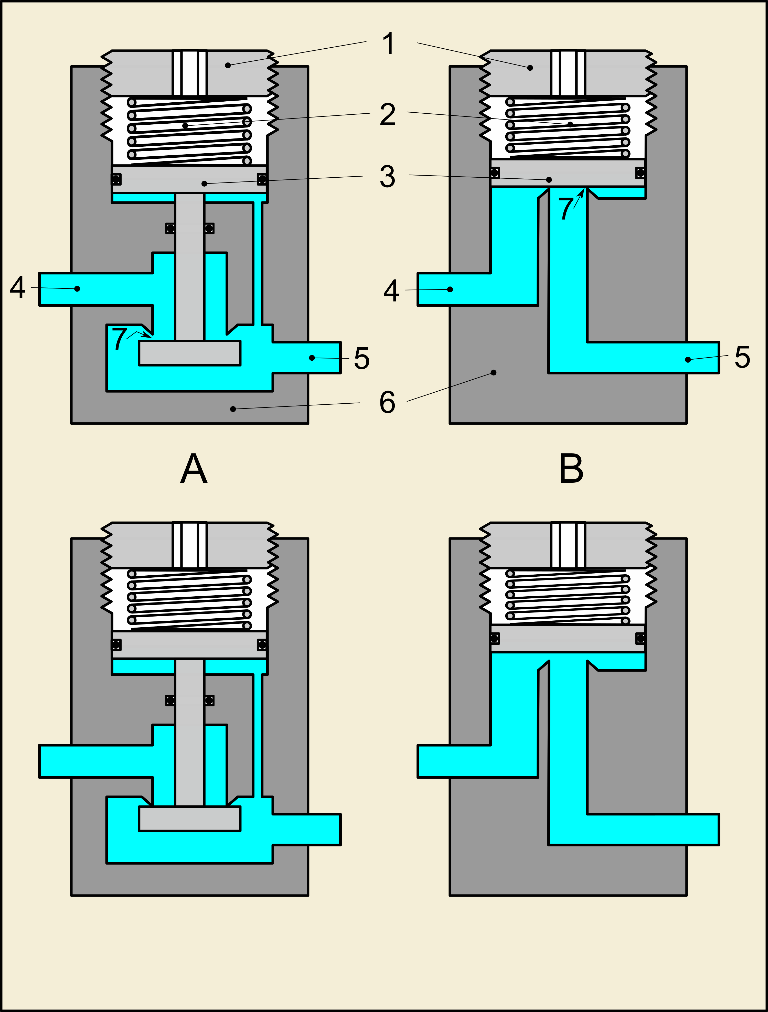 Schematic diagram of pressure reducing regulator and back-pressure regulator showing the basic principle of operation and the position of the valve in normal and activated positions